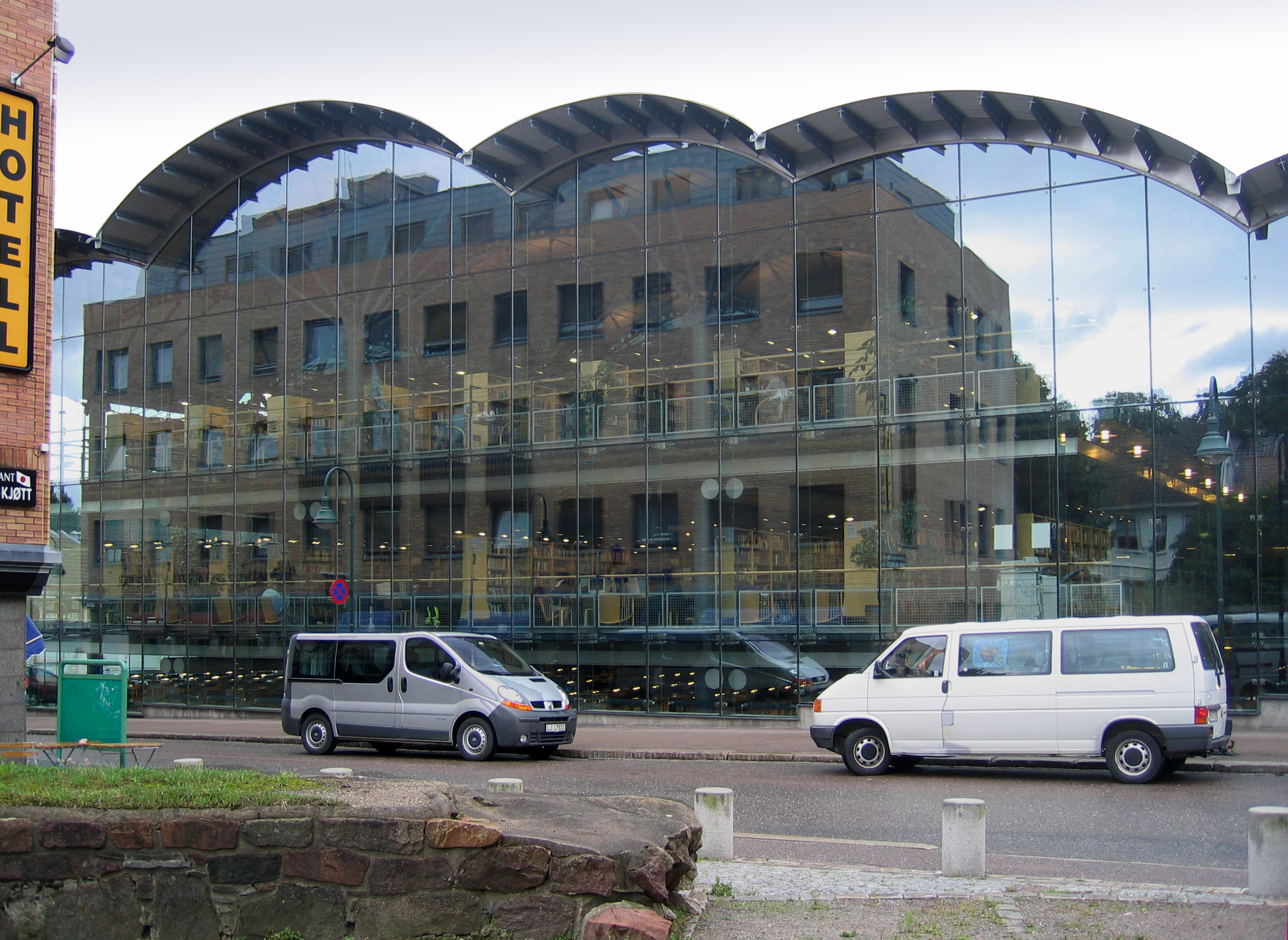 Tønsberg library